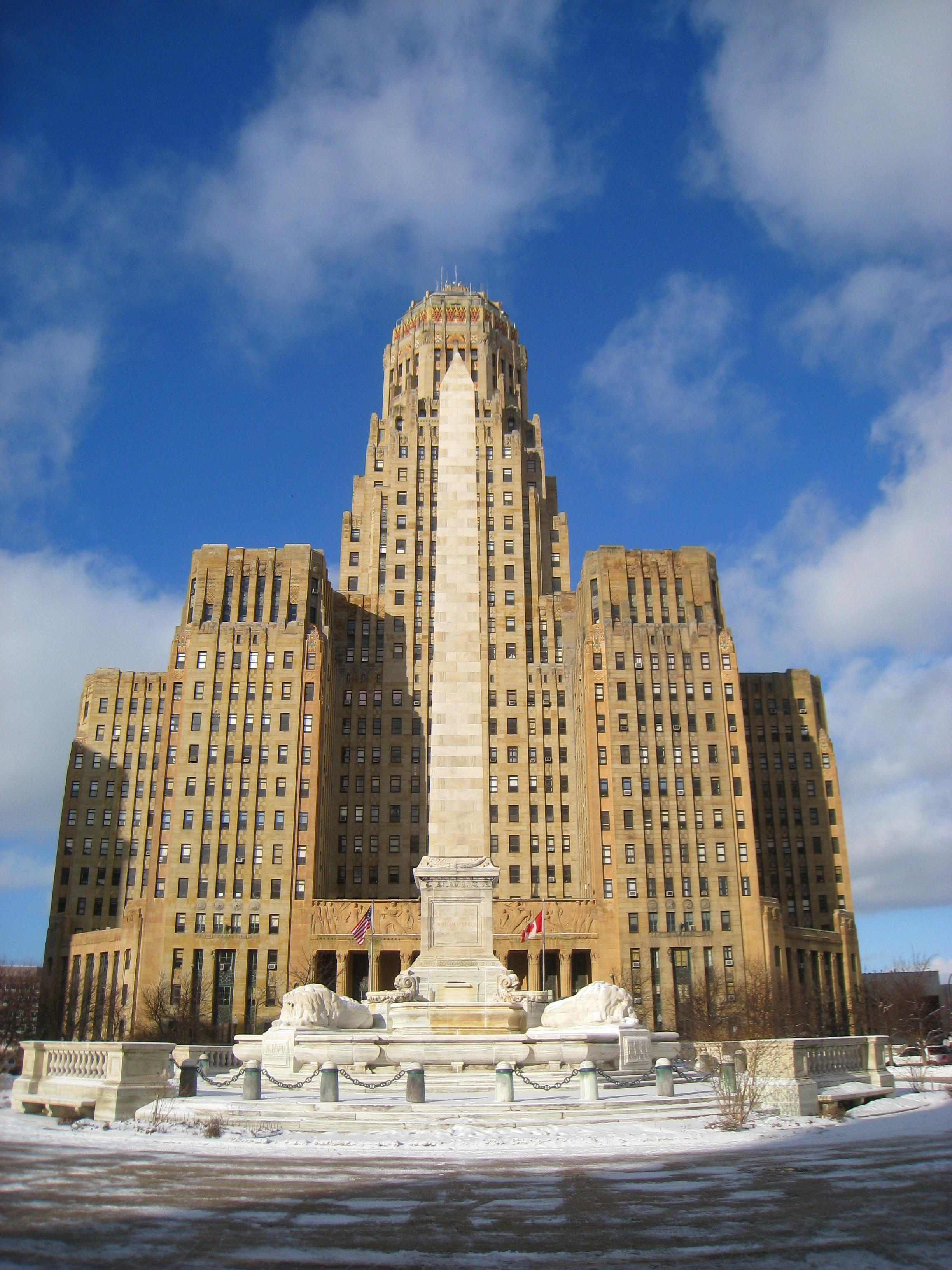 McKinley Monument in Niagara Square, Buffalo, New York. Architects Carrère and Hastings; sculptor Alexander Phimister Proctor. Dedicated September 5, 1907. Buffalo City Hall is in the background.